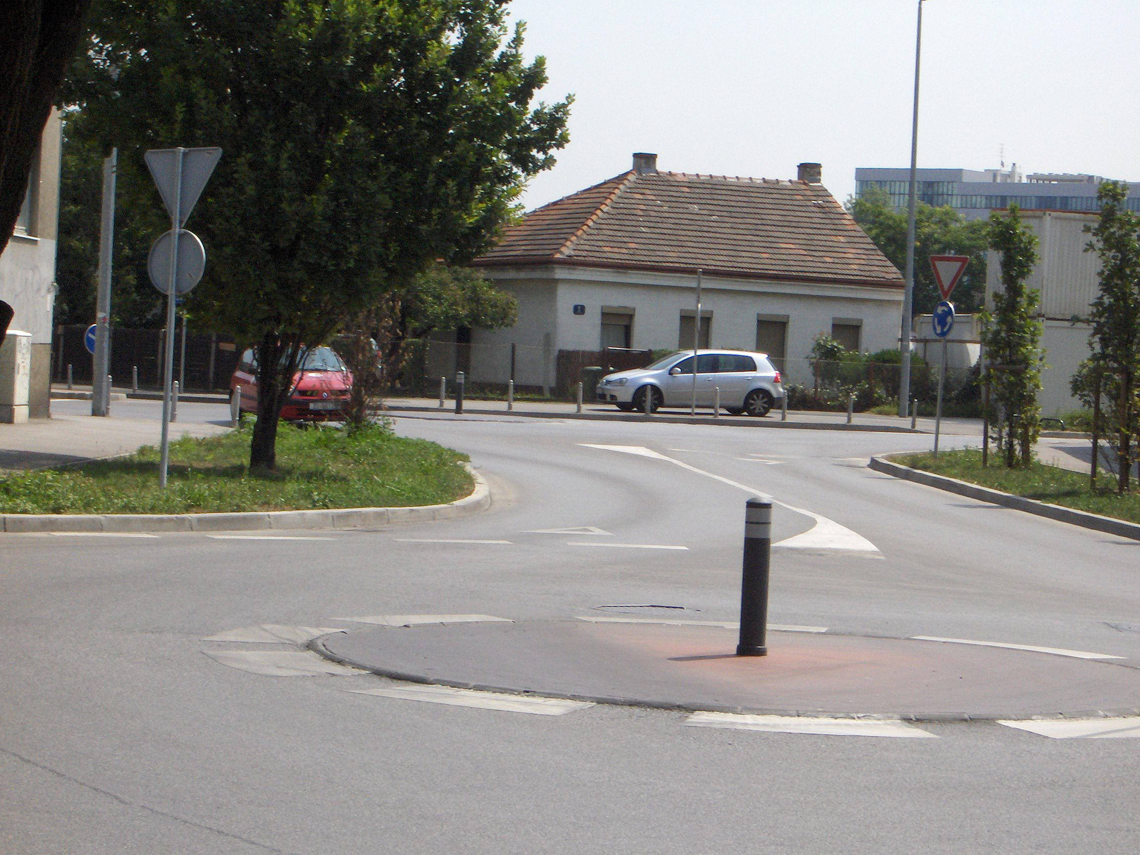 A hybrid between a magic roundabout and a raindrop roundabout, located in Zavrtnica neighborhood of Zagreb, Croatia.